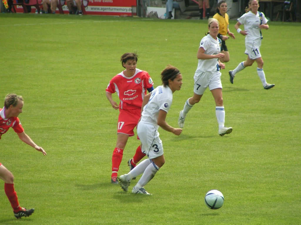 UEFA-Women's Cup Final 2005 at Potsdam: 1. FFC Turbine Potsdam - Djurgårdens IF / Älvsjö Stockholm. In red in the middle: Ariane Hingst, in red at the left side: Conny Pohlers. Source: taken by David Herrmann, 21. May 2005